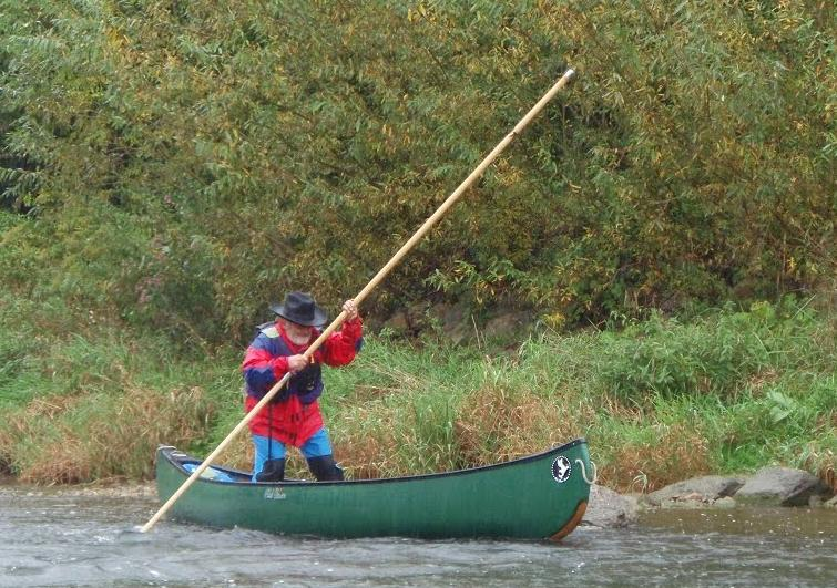 Poling a canoe upstream